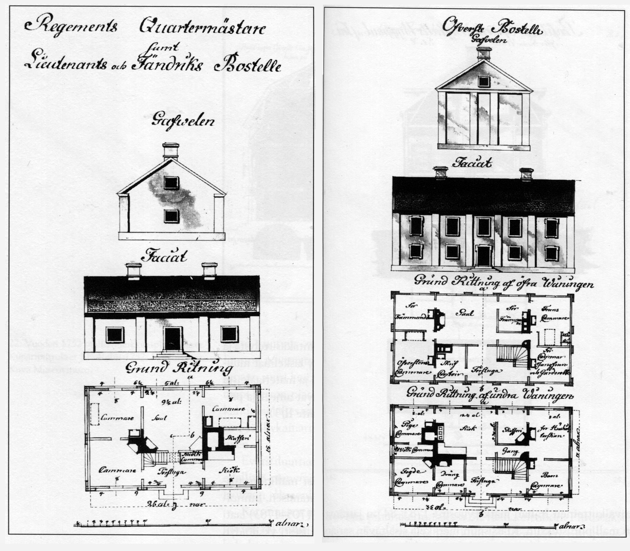 Drawings for standardised houses for army officers in Finland, 1766. Other information Original included some colour - this is a black-and-white photo of it.